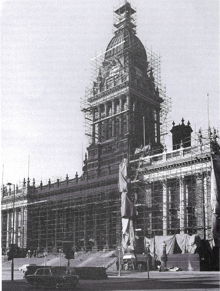 Spring 1972 and Leeds Town Hall has its first official clean up (on previous occasions it had been hosed down by the fire brigade) which revealed much of the beautiful stonework.